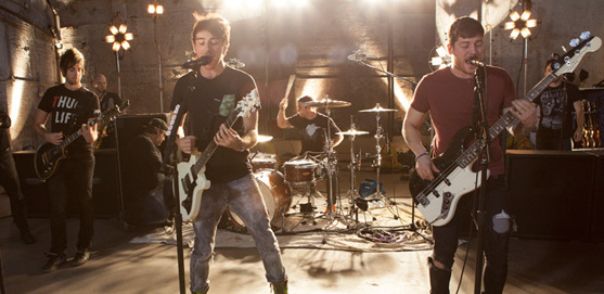 Baltimore band All Time Low rocks the Walmart Soundcheck stage in an exclusive New York City performance. Check out exciting new versions of songs from the pop-punk band's latest, 'Don't Panic,' including 'The Reckless And The Brave,' 'For Baltimore,' and 'Somewhere In Neverland.' Plus, the group sits down for an in-depth interview where they talk about returning to their roots, how the new album came together, their fans and much more!